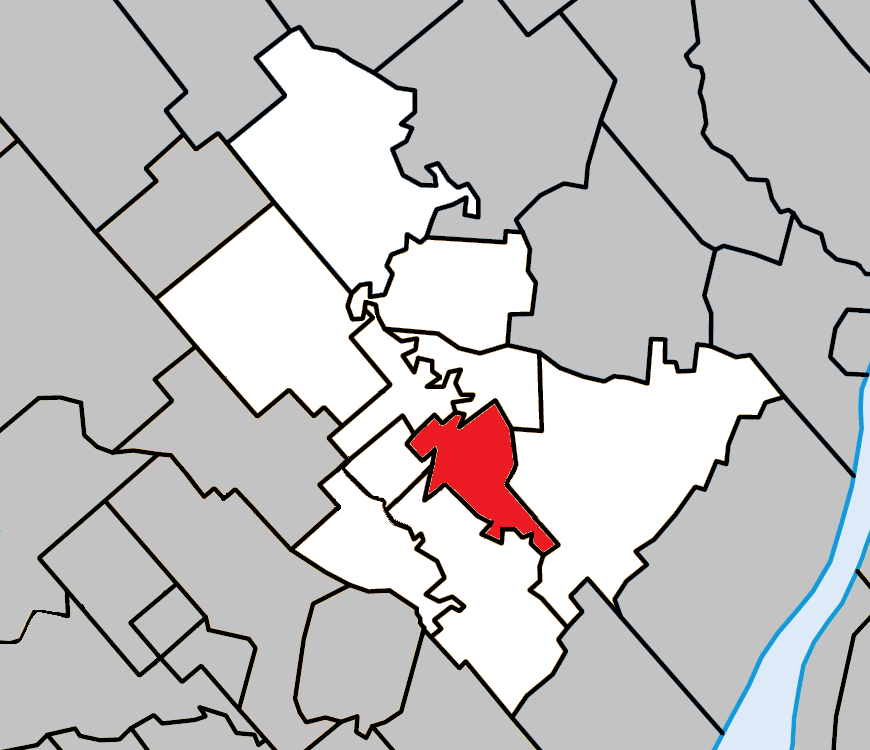 Location of Joliette, Quebec within Joliette Regional County Municipality.